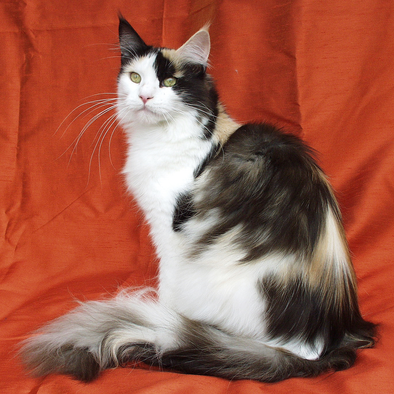 Young Maine Coon female in black tortie/white. FIFe-EMS-Code MCO fs 03